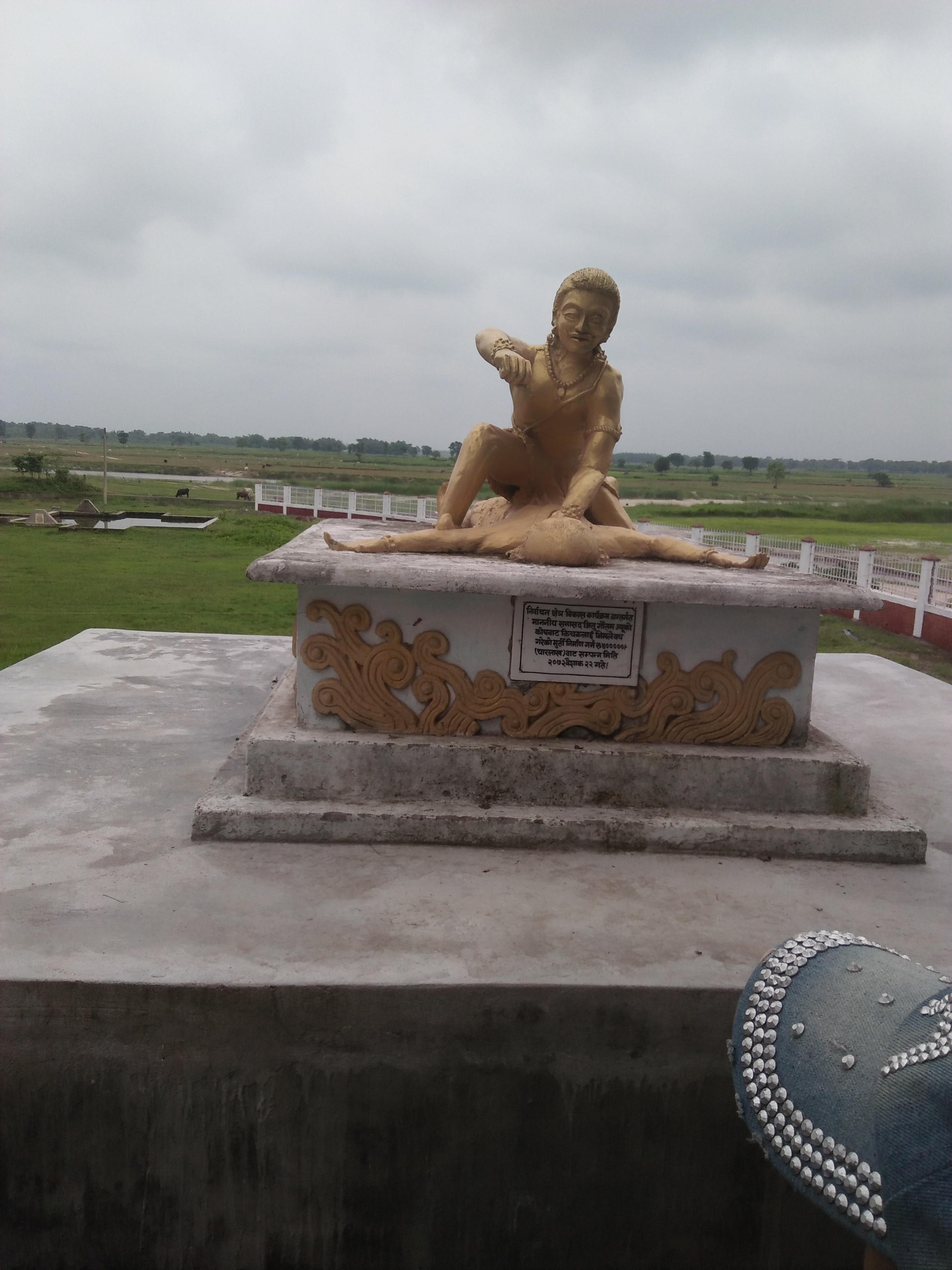 it is a place with mytical believe of winning over demons situated near prithivinagar.